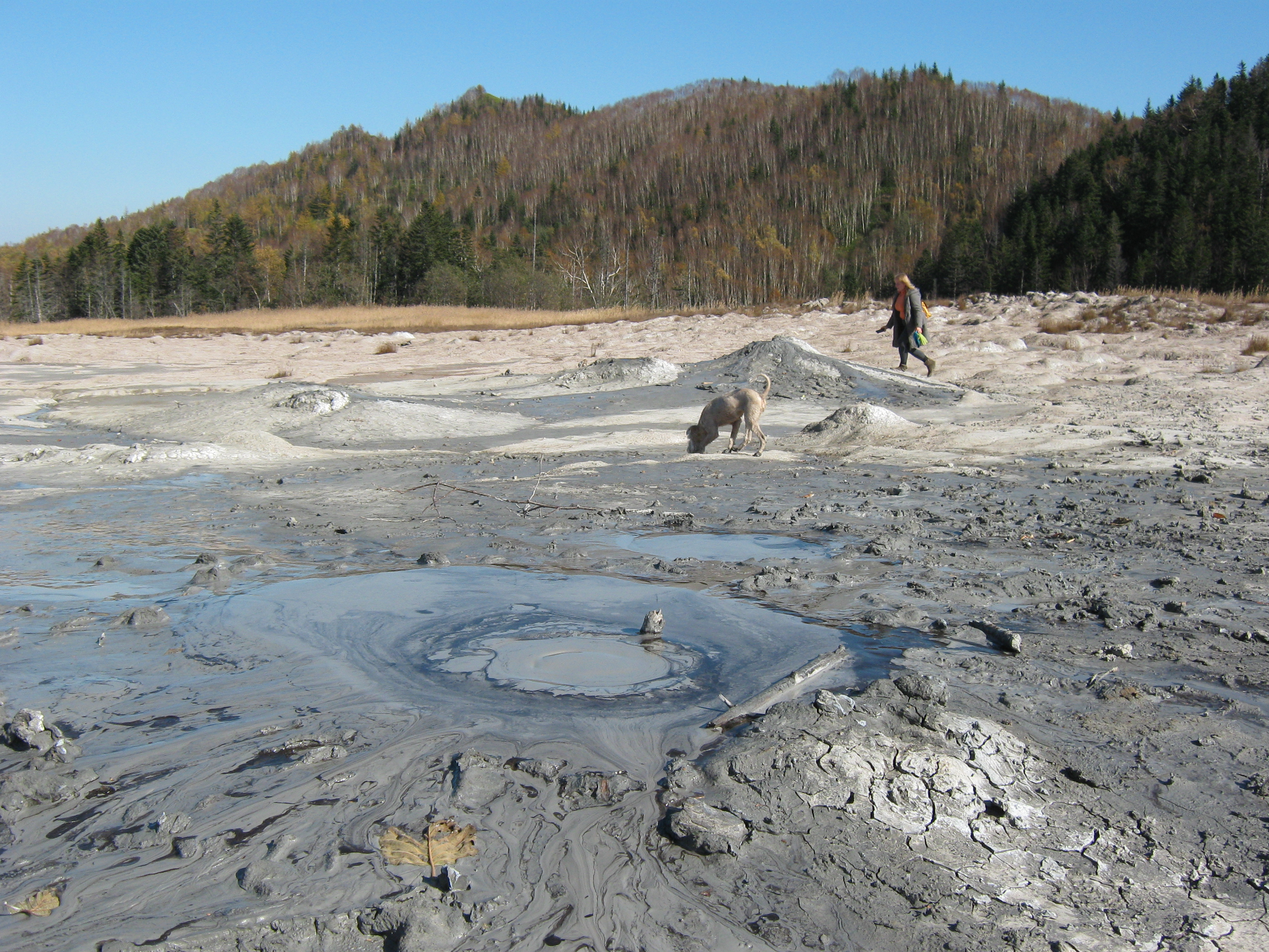 Yuzhno-Sakhalinsk mud volcano